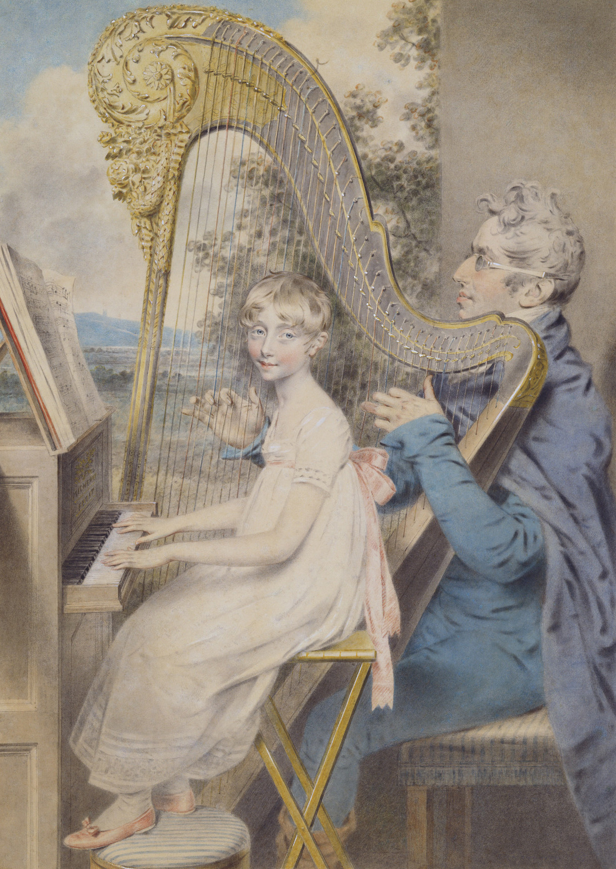 Image of Elizabeth and Edward Randles playing together, painted by John Downman